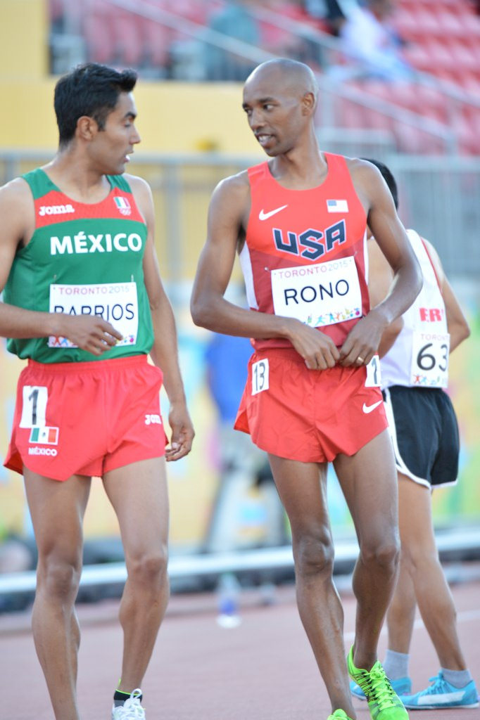 A scene from the 10,000-meter run at the 2015 Pan American Games in Toronto. U.S. Army photo by Tim Hipps, IMCOM Public Affairs